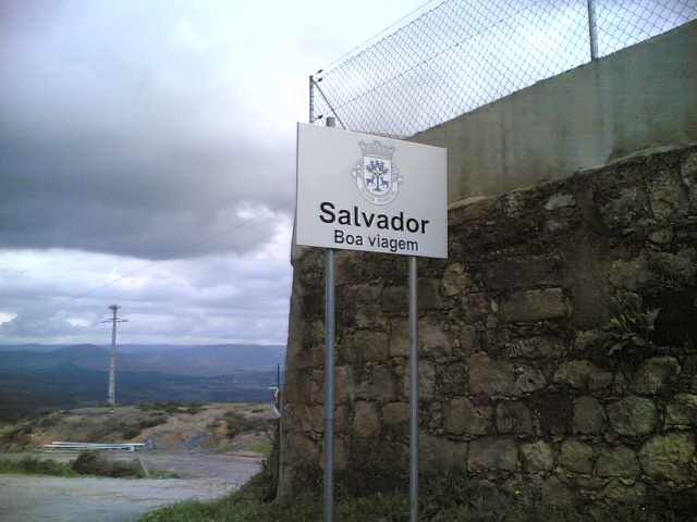 Salvador, a small village near Penamacor, in Portugal